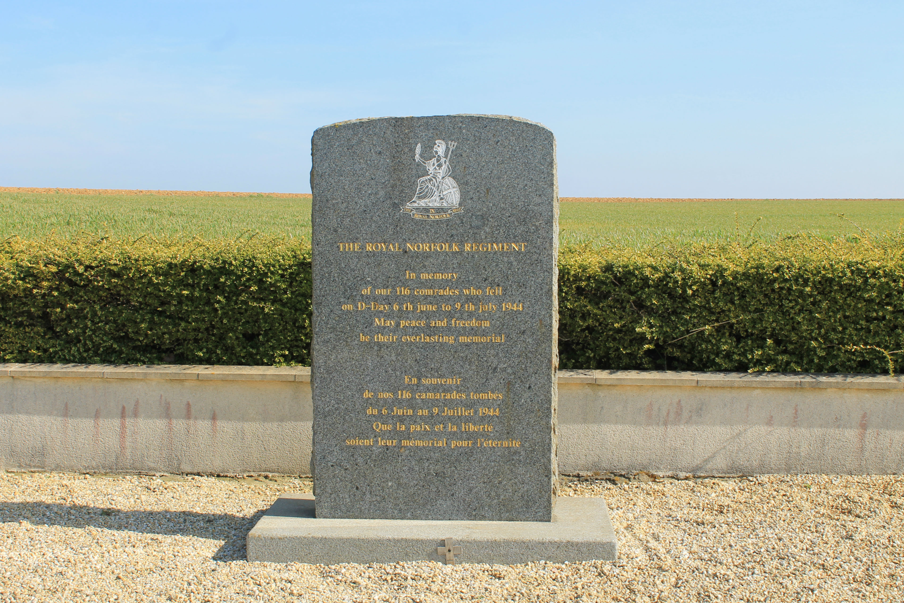 The Royal Norfolk Regiment. In memory of or 116 comrades who fell on D-Day 6 th june to 9 th july 1944. May peace and freedom be their everlasting memorial in Biéville-Beuville (Normandy, France)